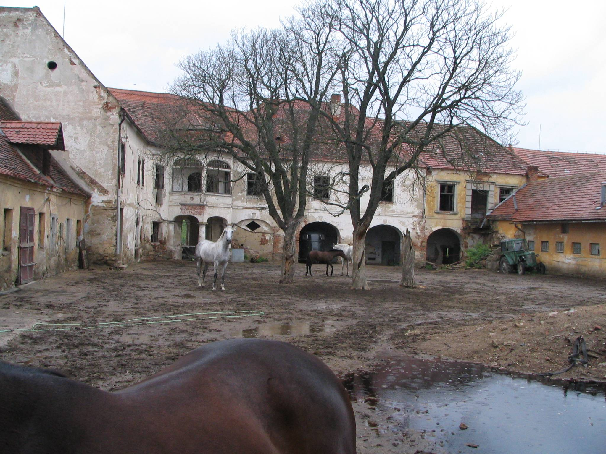 court of castle Rešice in year 2006